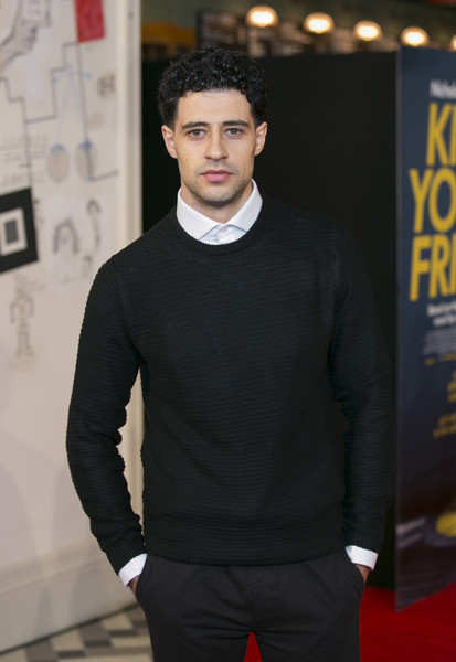 David Avery at Kill Your Friends premiere, London 2015